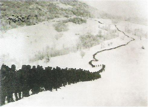 Desperately retreating Serbs over snow-covered mountains.